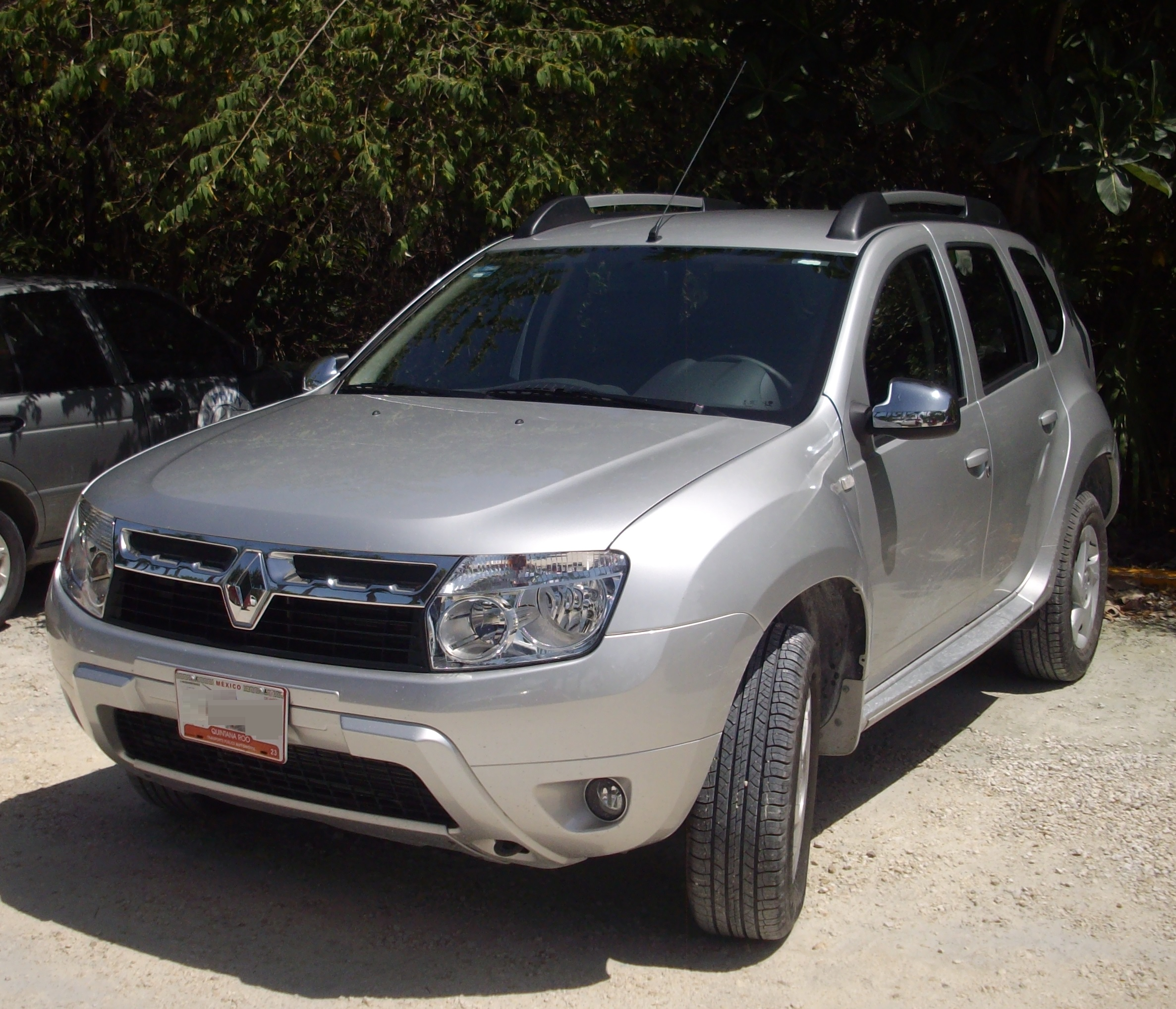 2012 Renault Duster photographed in Quintana Roo, Mexico.